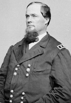 photo of James W. McMillan (1825-1903)